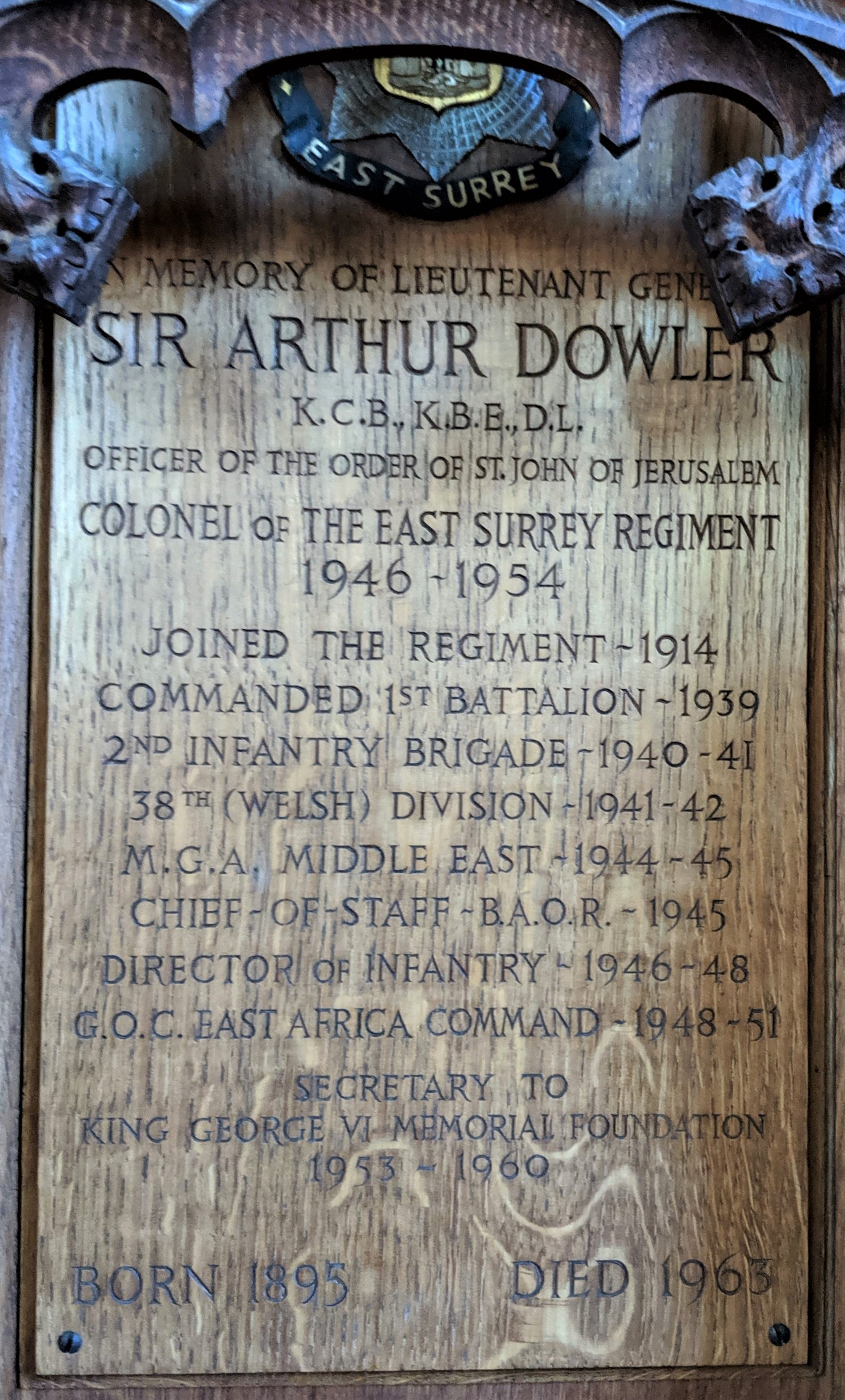 Plaque to Lieut General Sir Arthur Dowler in East Surrey Regiment chapel, All Saints Church, Kingston upon Thames, Surrey